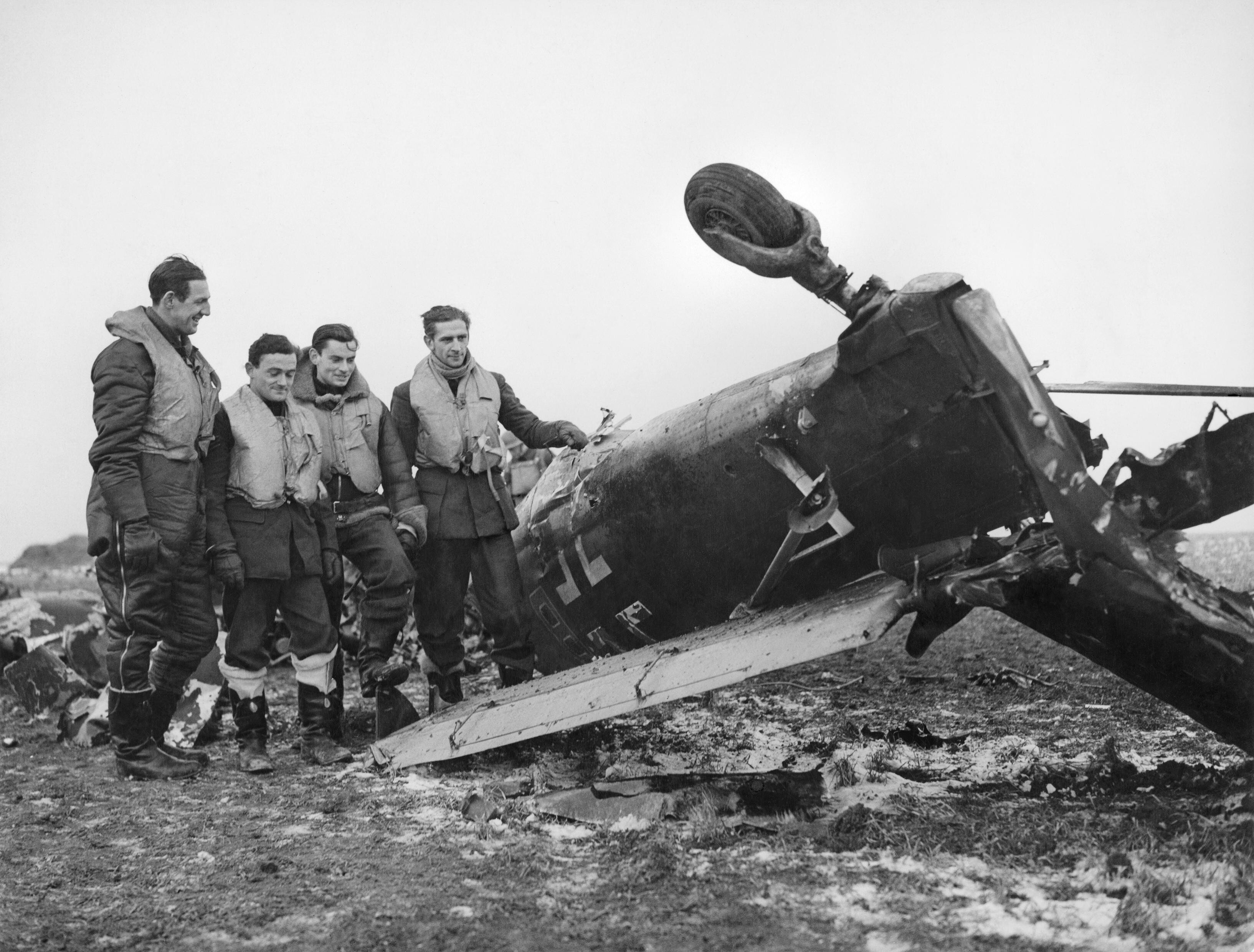 The Battle of Britain 1940 Spitfire pilots pose beside the wreckage of a Junkers Ju 87 Stuka, which they shot down as it was attacking a Channel convoy, 1940.